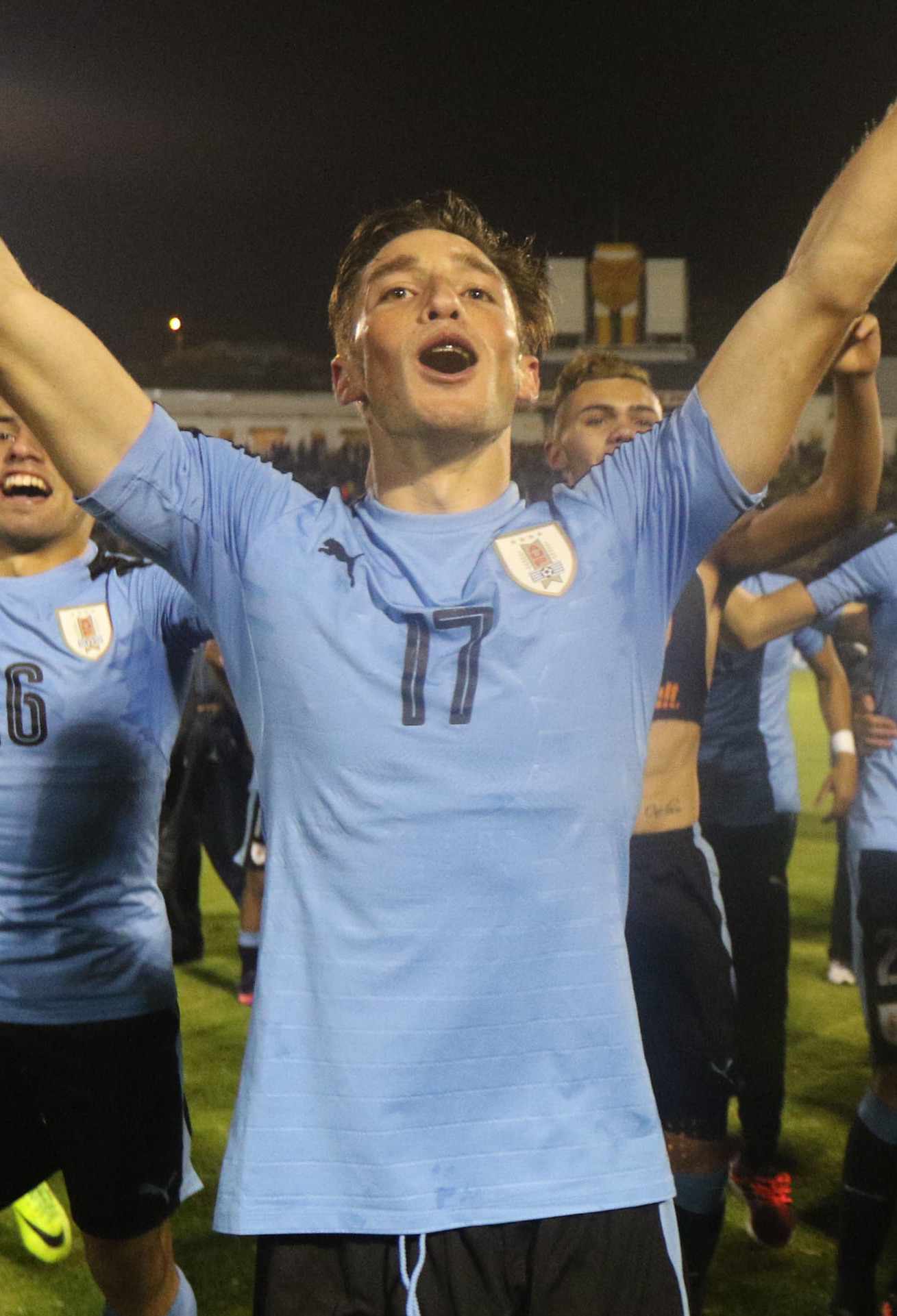 PREMIACIÓN CAMPEONATO SUDAMERICANO SUB 20